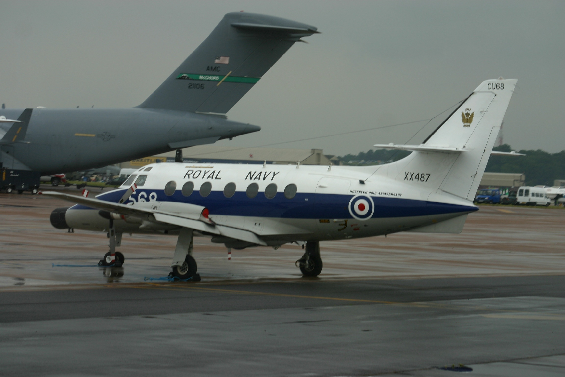 At RAF Fairford